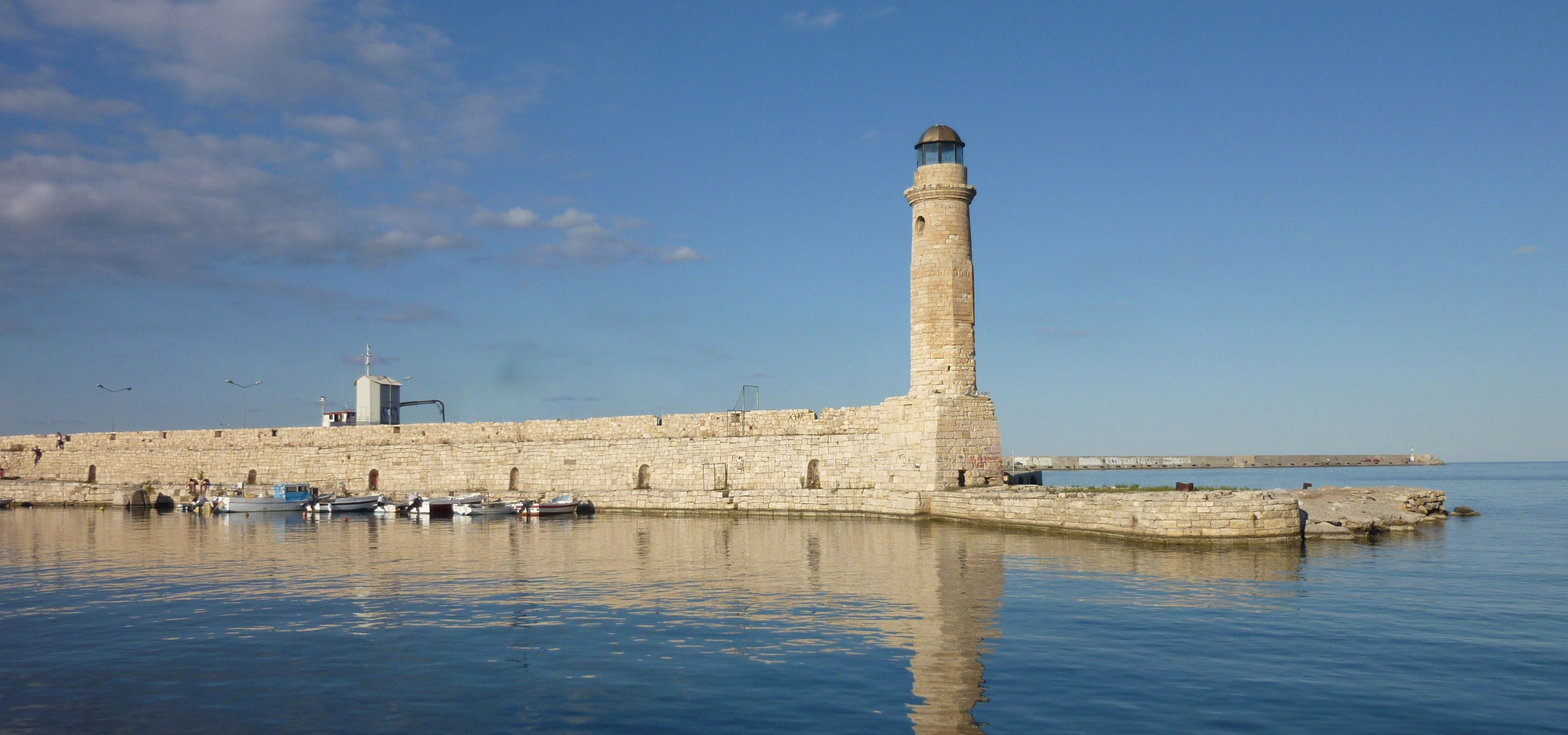 Rethymno lighthouse, Crete, Greece